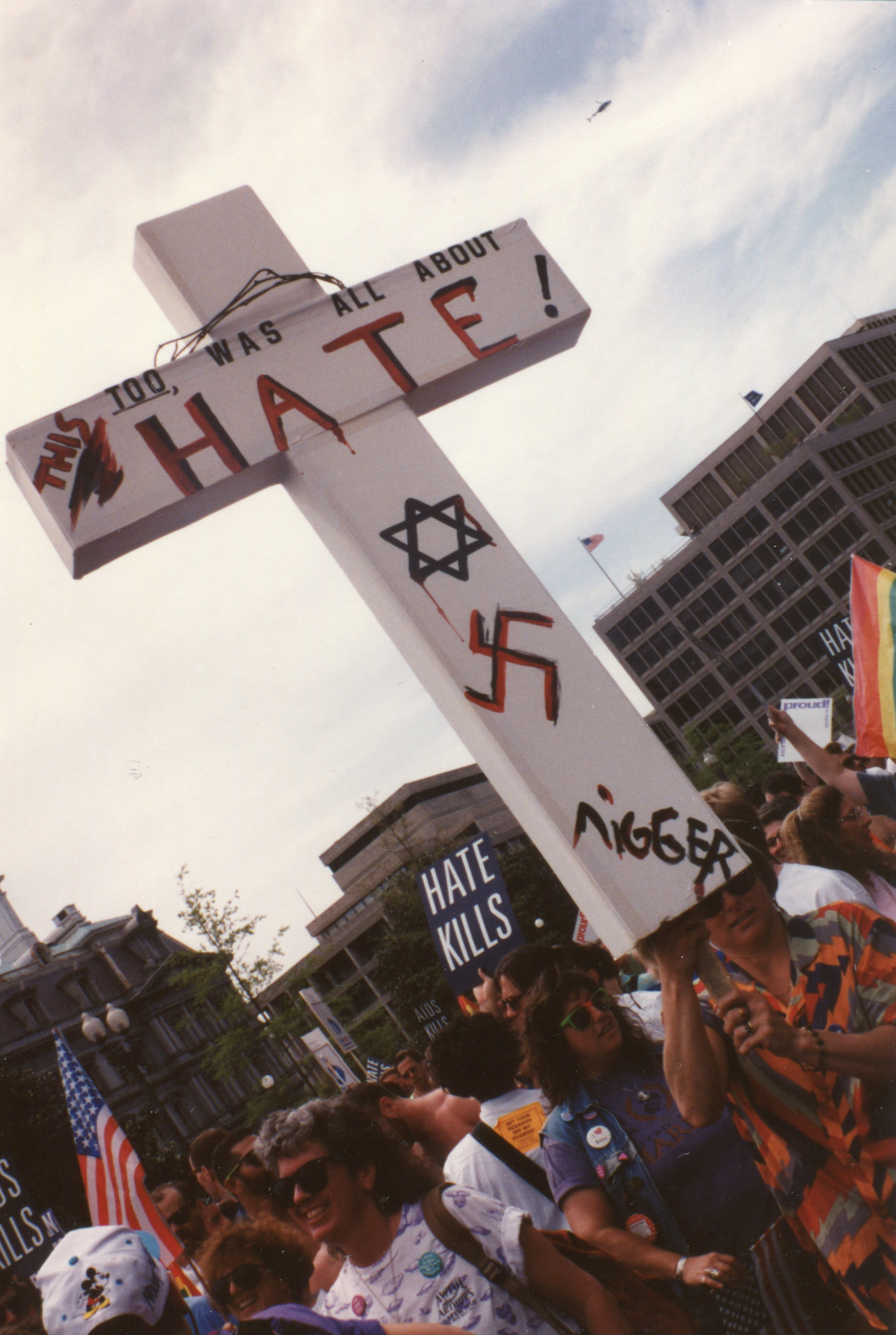 National March on Washington for Lesbian, Gay, and Bi Equal Rights and Liberation on the Ellipse across from the White House in the 1600 block of E Street, NW, Washington DC on Sunday afternoon, 25 April 1993 by Elvert Barnes Photography 25 April 1993 LGBT March On Washington at Wikipedia at Elvert Barnes MARRIAGE EQUALITY ongoing project at